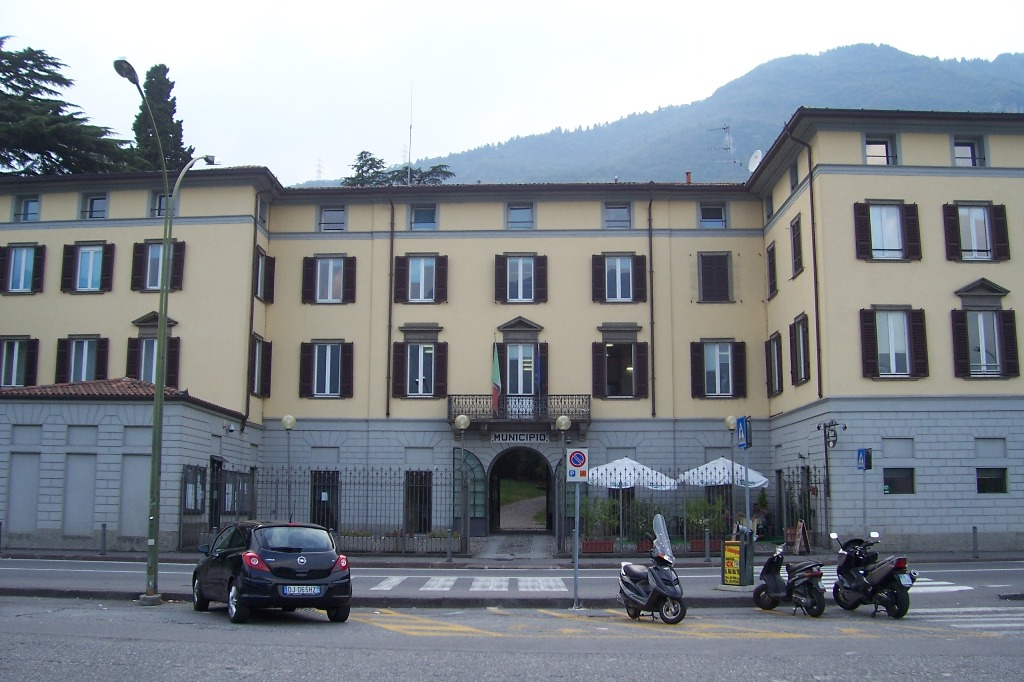 Town hall. Lovere, Val Camonica